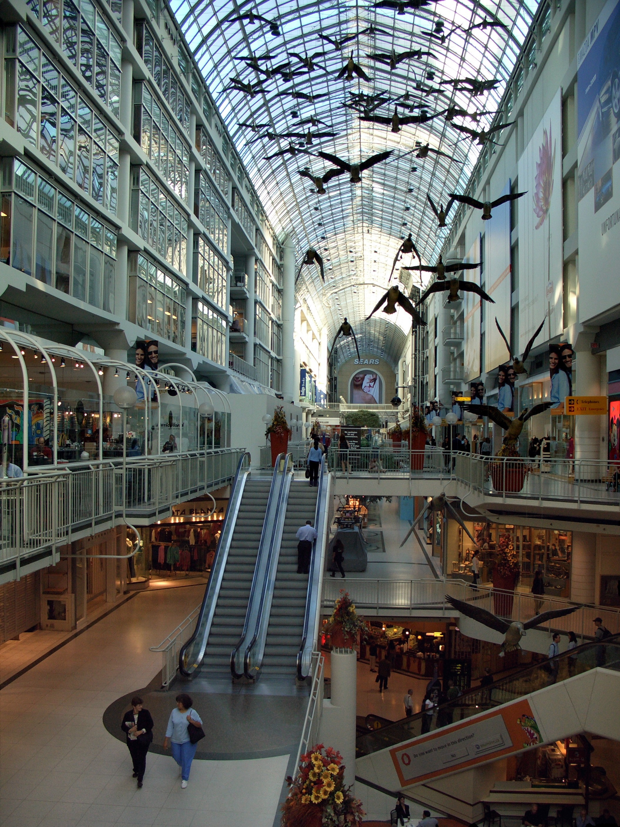 Eaton Centre, Toronto